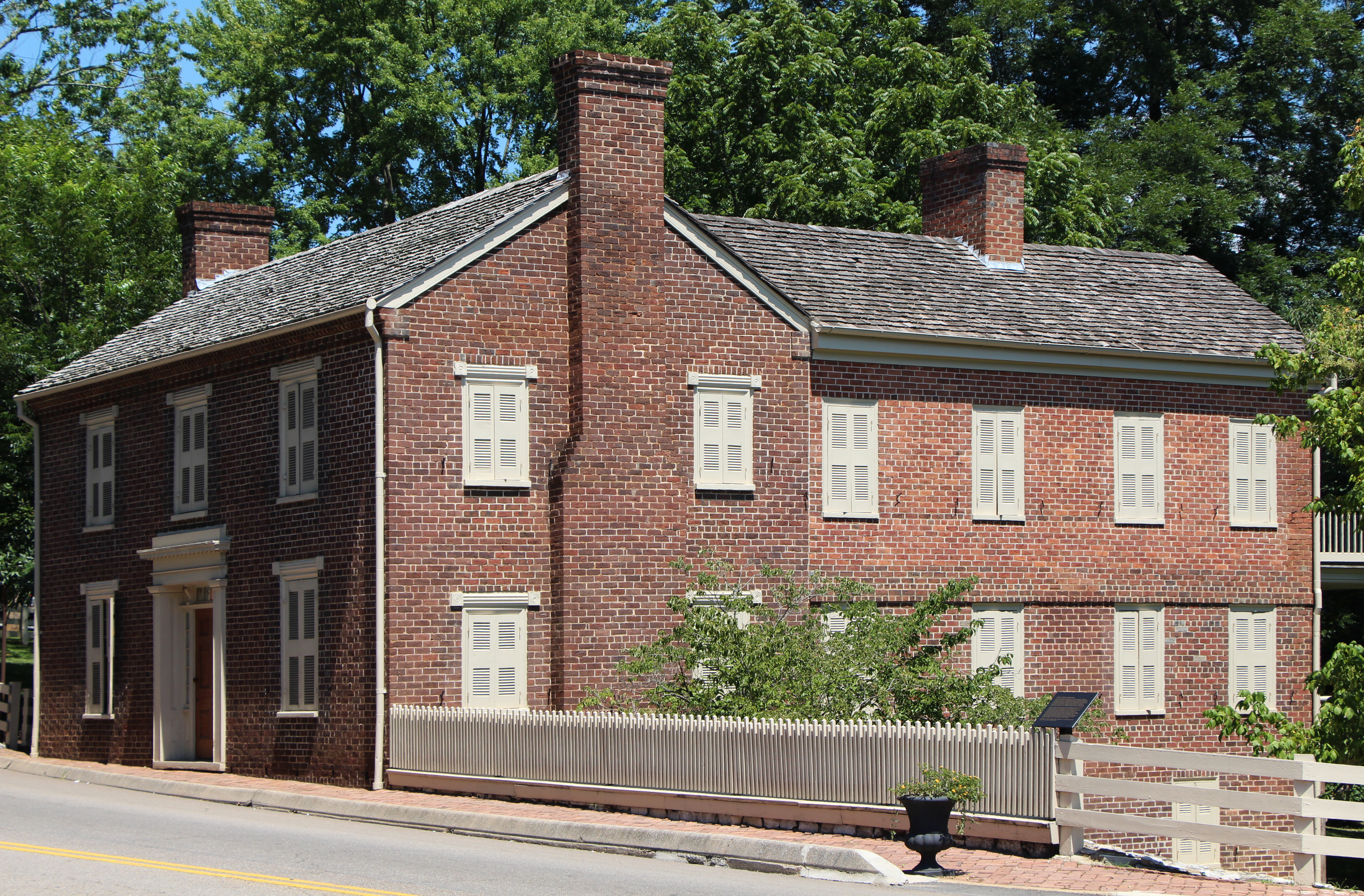 Andrew Johnson Home, Greeneville, TN